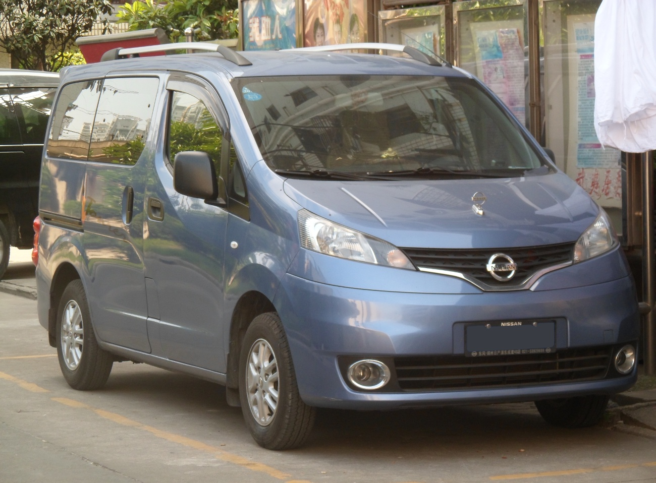 Nissan NV200 photographed in Shanghai, China.